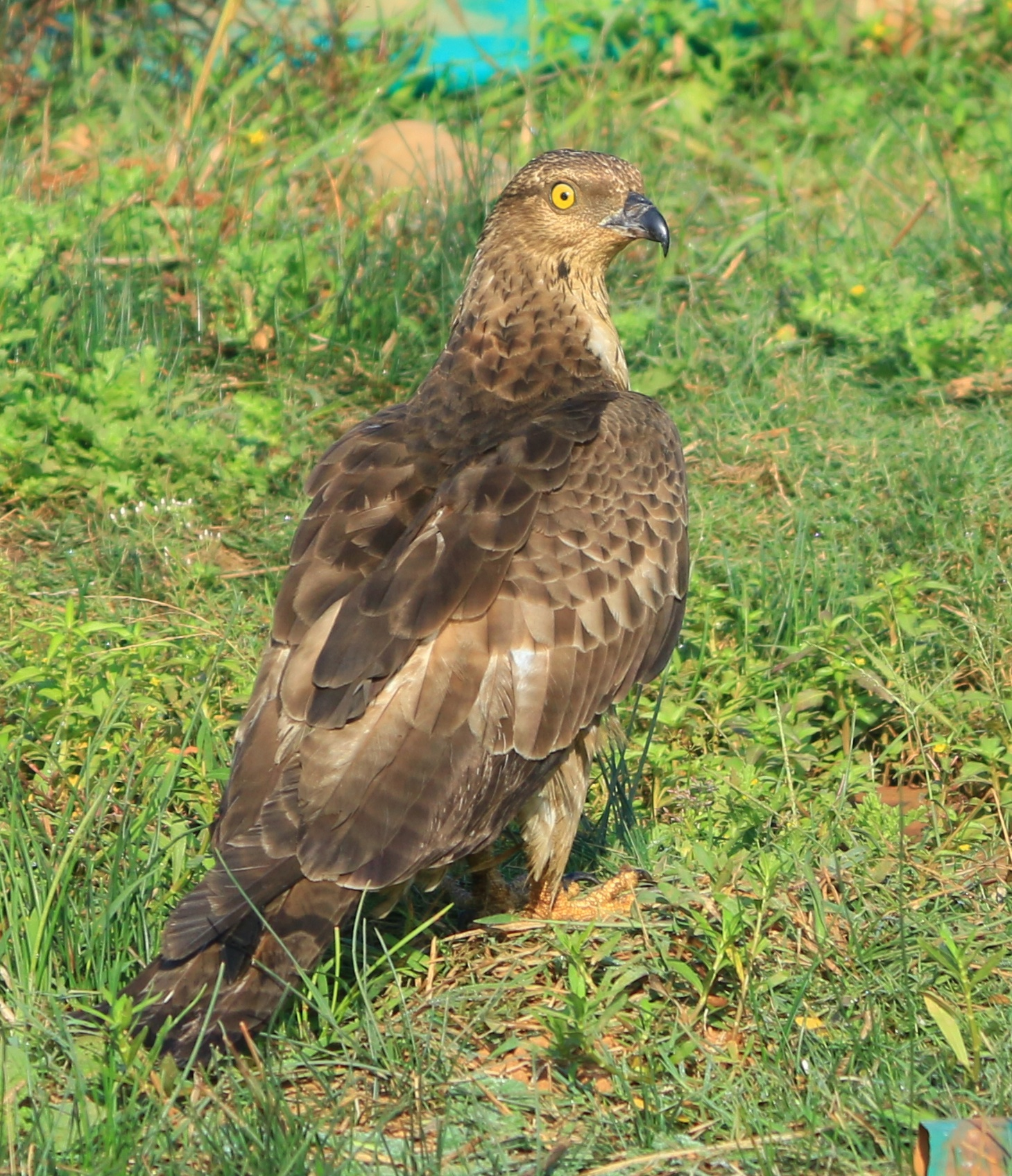 Oriental honey buzzard female